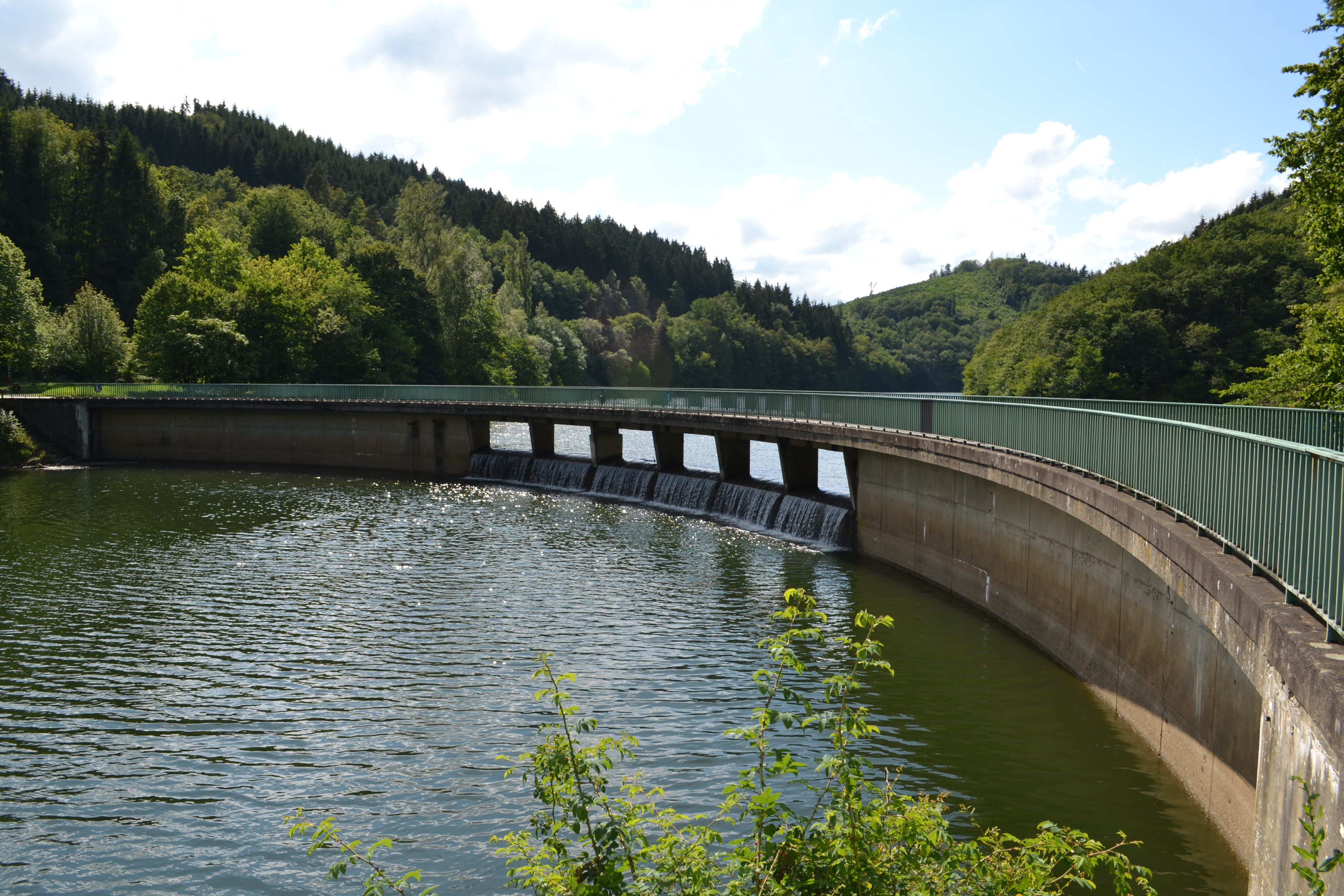 Lac de la Haute-Sûre, Luxembourg 2012